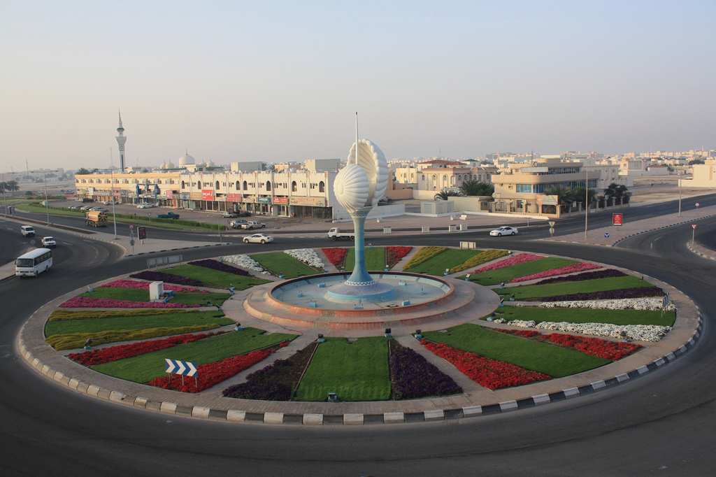 Shell Round About Al-Wakrah